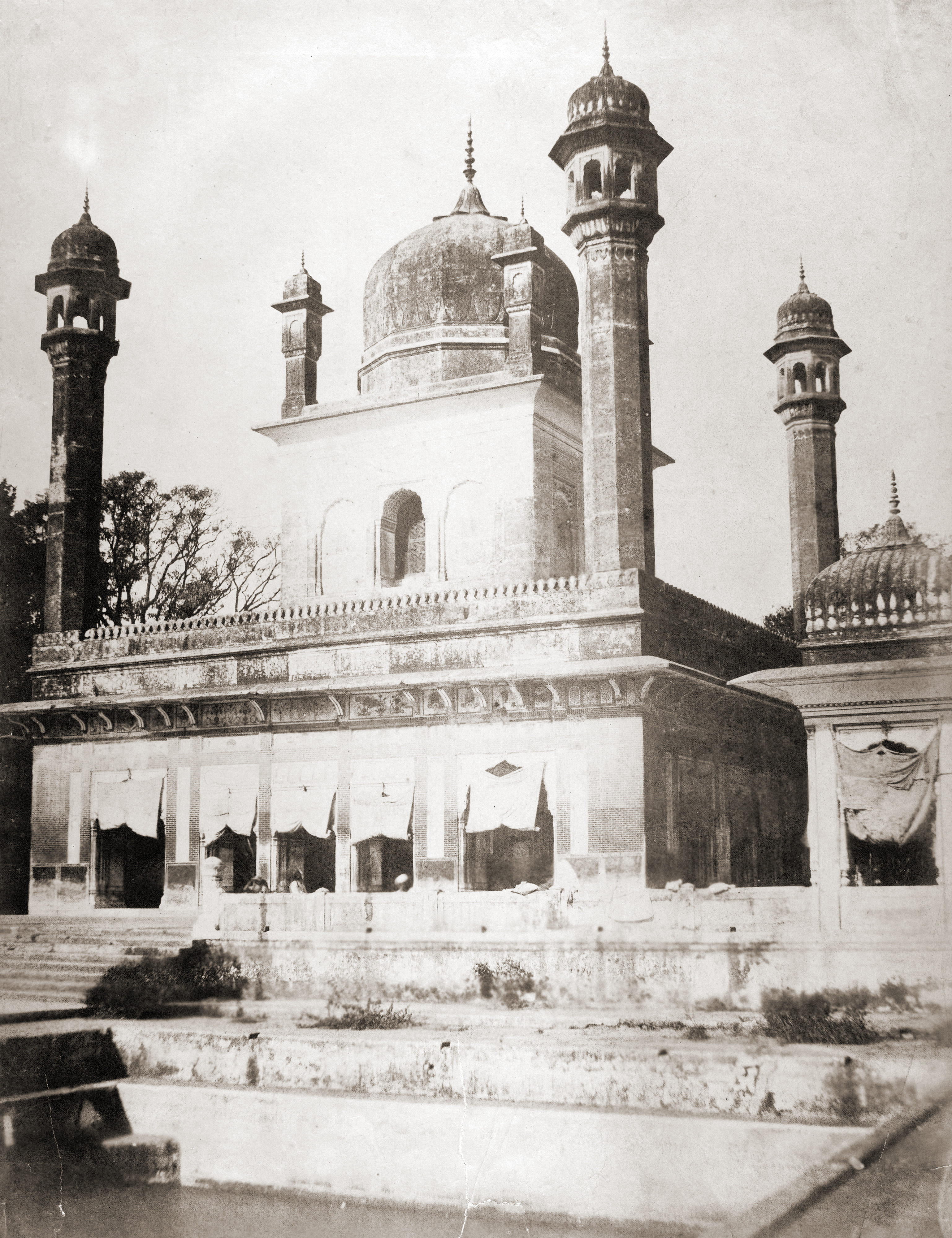 Guru Ram Rai Temple, Dehradun. From source: General view of the Sikh temple at Dehra Dun, photographed by Robert and Harriet Tytler in 1858. A caption note accompanying this view reads, "Those who worship in this temple profess a religion between the Mohammedan and Hindoo and composed of Sikhs. Except one of their own sect no person ever had access within the temple until the mutiny. Gaaraa Nanule was the founder of the religion". This temple is of Sikh Guru Ram Rai, who settled at Dehra Dun in Uttar Pradesh at the end of the 17th century. The Sikh religion was a reformist faith founded by Guru Nanak (1469-1539) in the 15th century. Additional information: Ram Rai was the son of Guru Har Rai. He was sent by his father as an emissary to the Mughal emperor Aurangzeb in Delhi. Aurangzeb objected to a verse in the Sikh scripture (Asa ki Var) that stated, "the clay from a Musalman's grave is kneaded into potter's lump", considering it an insult to Islam. Ram Rai explained that the text was miscopied and modified it, substituting "Musalman" with "Beiman" (faithless, evil) which Aurangzeb approved. The willingness to change a word led Guru Har Rai to bar his son from his presence. The Sunni Mughal Emperor Aurangzeb responded by granting Ram Rai a jagir (land grant) in Garhwal region (Uttarakhand). The town later came to be known as Dehradun, after Dehra referring to Ram Rai's shrine. The followers of Ram Rai came to be known as Ram Raiya Sikhs. For the mainstream Sikhs, they were one of the Panj Mel, the five reprobate groups that orthodox Sikhs are expected to shun with contempt. The other four are the Minas, the Masands, the Dhirmalias, the Sir-gums.